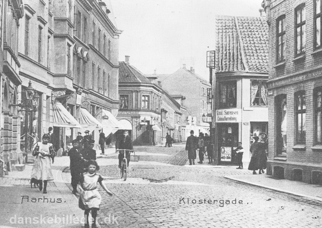 Klostergade